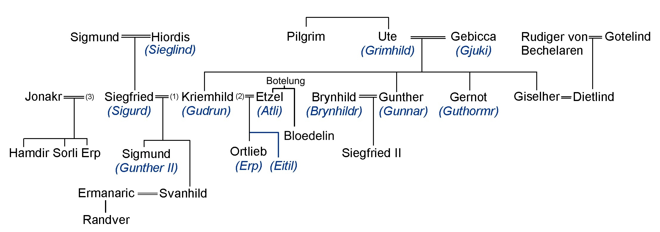 Genealogical tree of Nibelungenlied and Edda's persons.